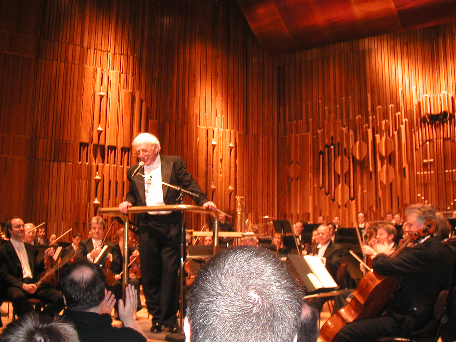 Jerry Goldsmith conducting London Symphony Orchestra